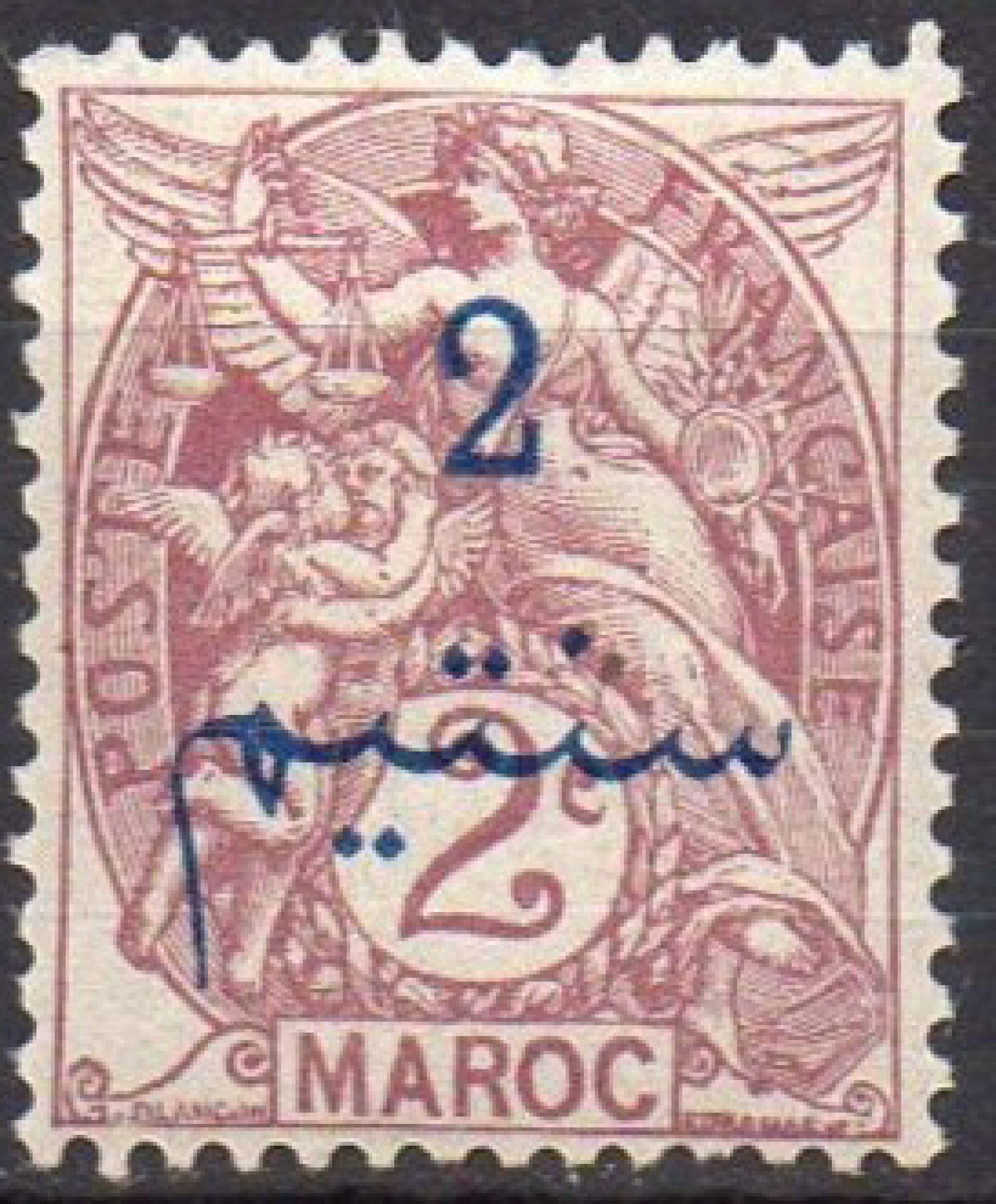 French Post Office In Morocco 2 centimes surcharged 2 سنتيم